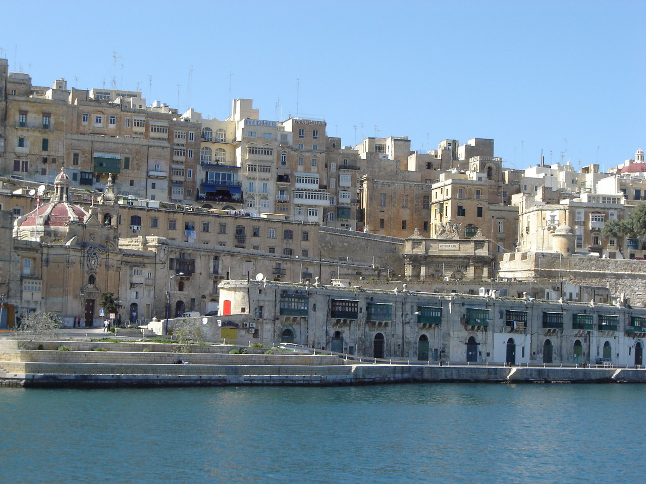 Quarry Wharf